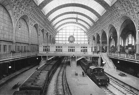 Orsay Station, Paris, Paris-Orléans railway.